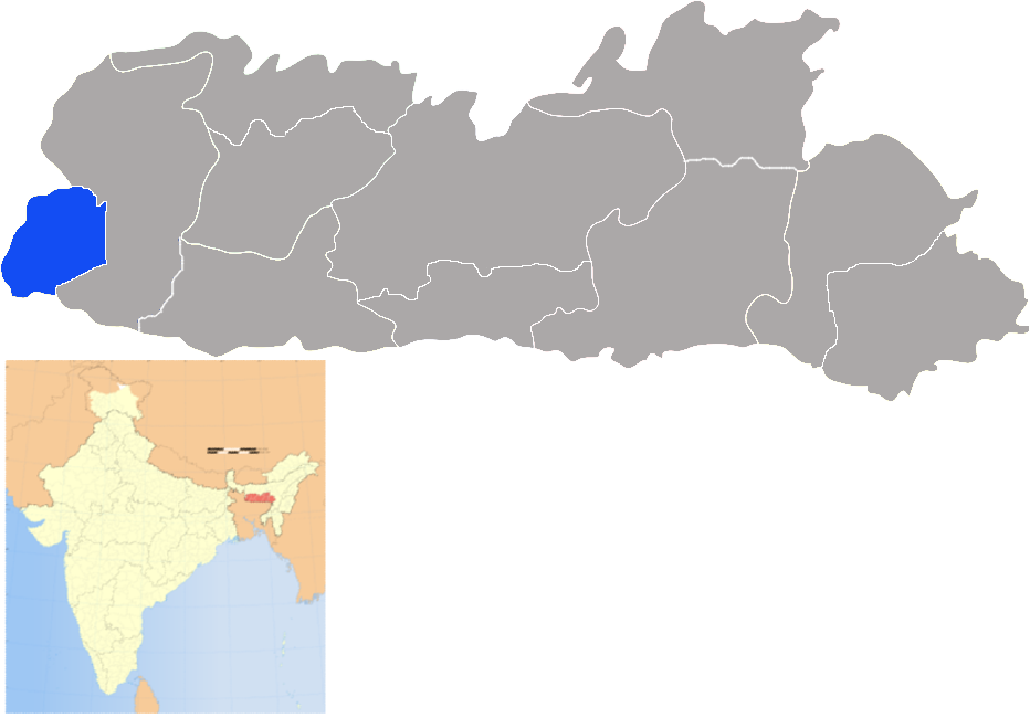 Locator map of South West Garo district of the Indian state of Meghalaya.